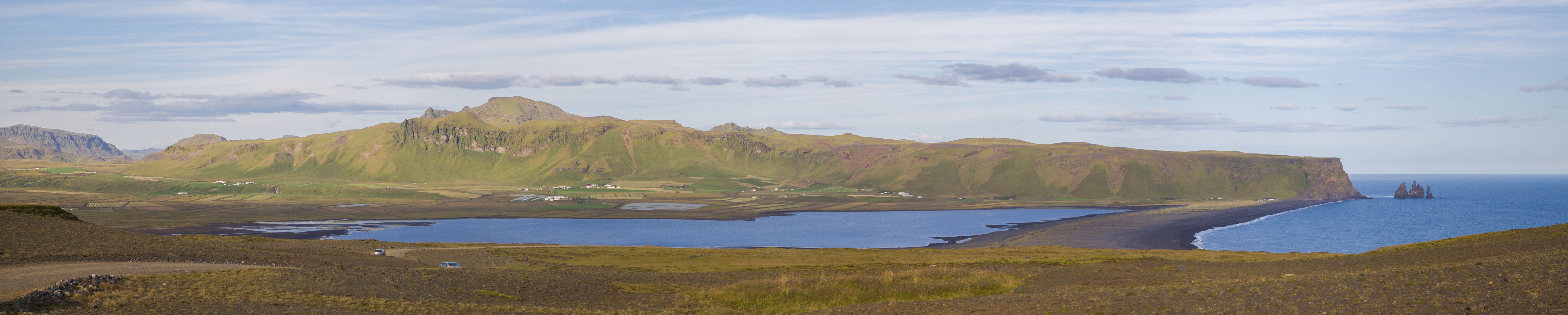 Reynisfjara, Suðurland, Iceland